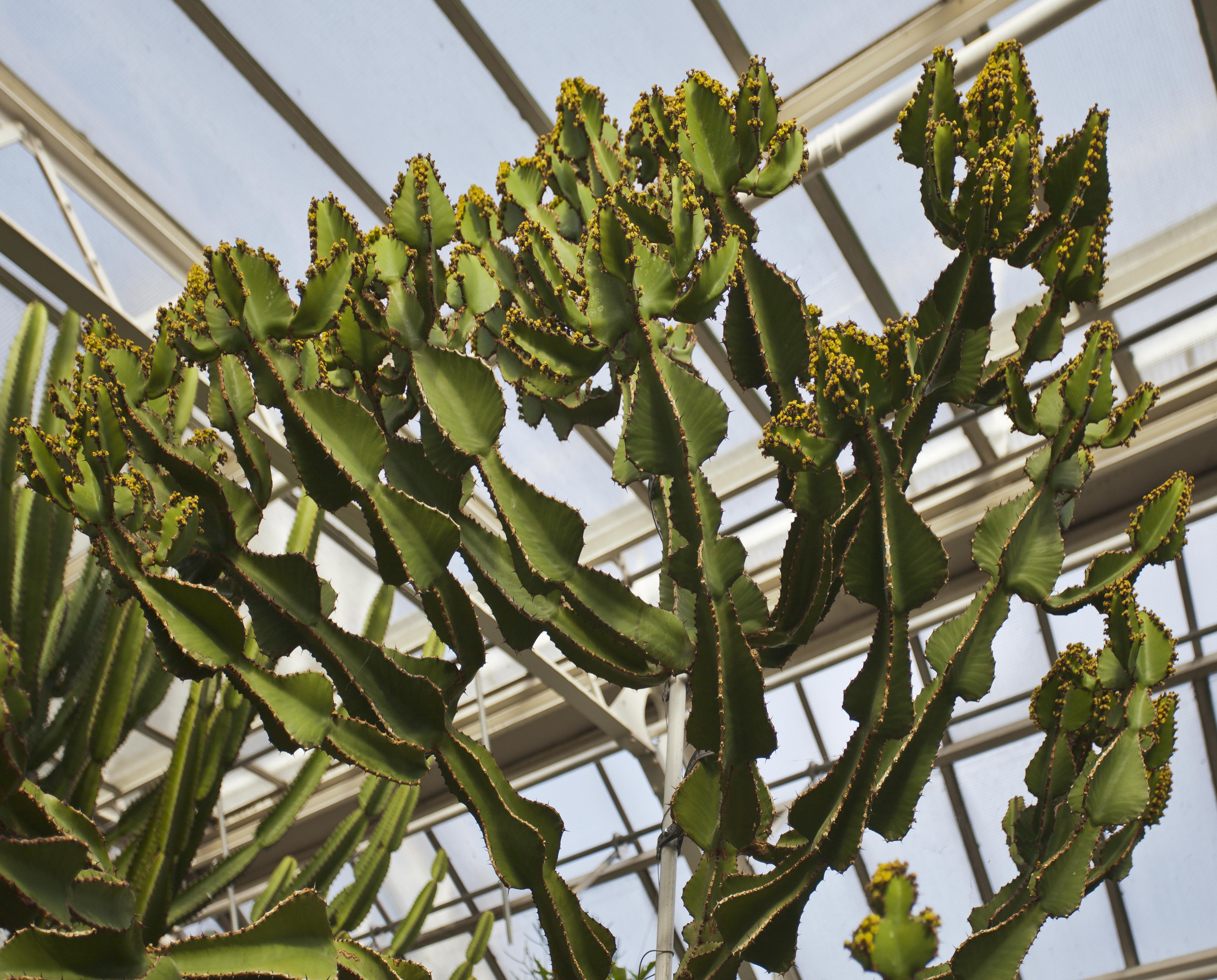 Flowering Euphorbia cooperi, Munich Botanical Garden, Germany